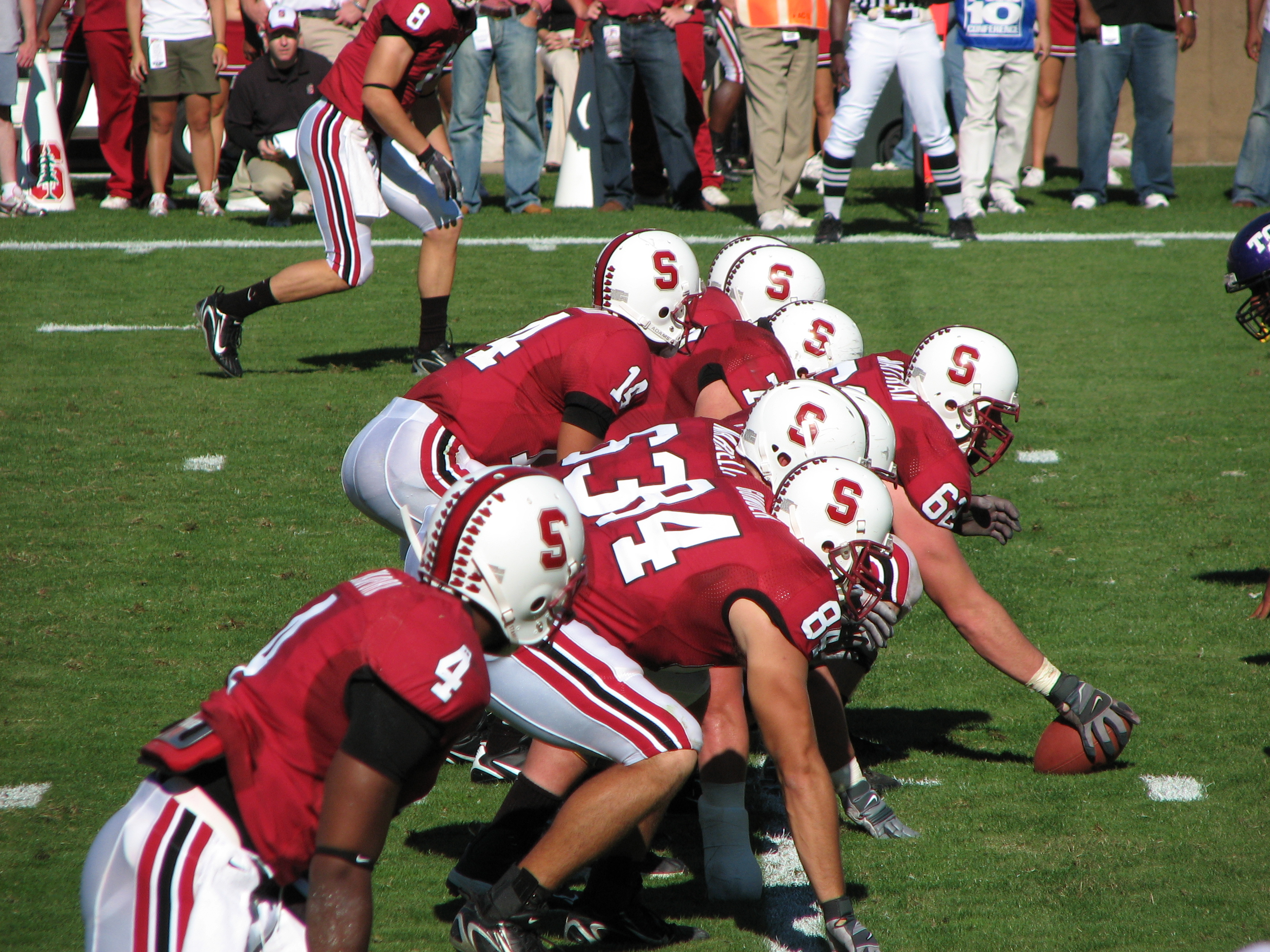 The Stanford University American Football team lined up for a play.